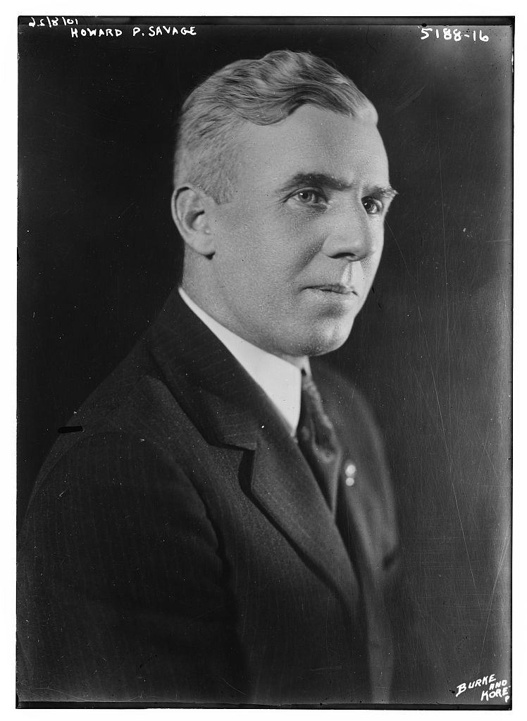 Howard Paul Savage circa 1915